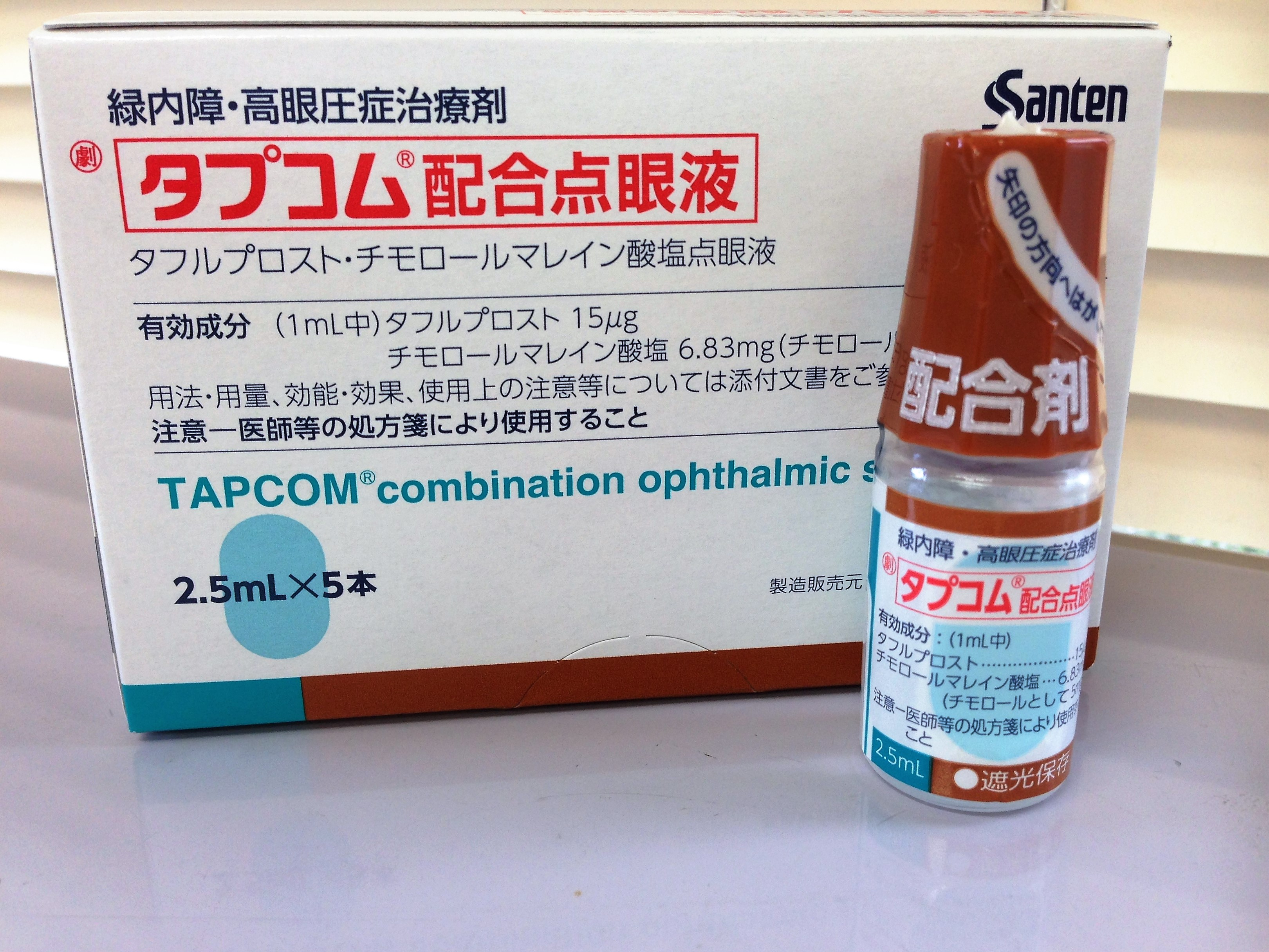 Tafluprost + timolol combination ophthalmic solution (TAPCOM eye drops)